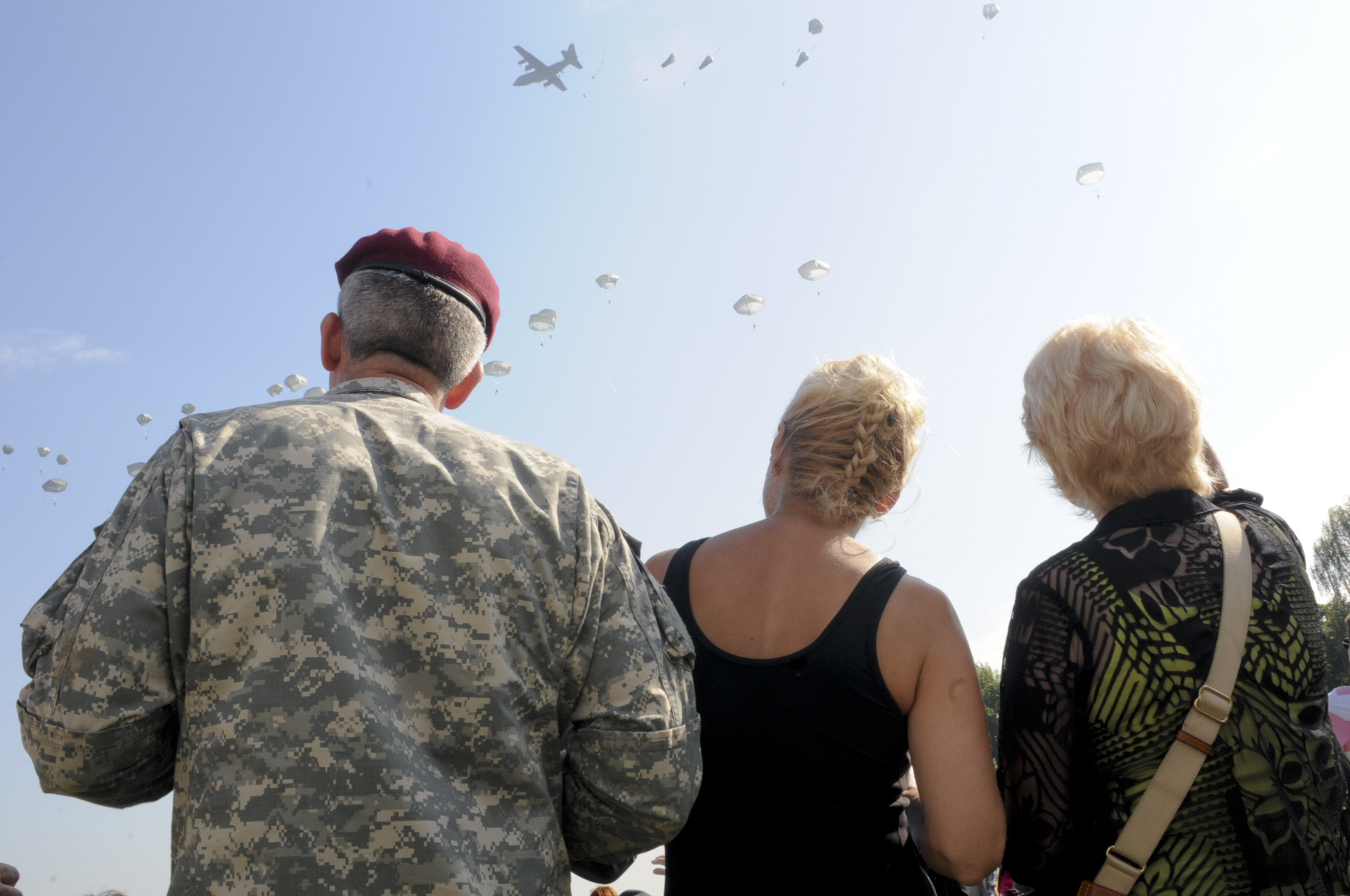 Maj. Gen. John Nicholson (left), the commanding general of the 82nd Airborne Division, watches an airborne operation near Groesbeek, Netherlands, Sept. 18. The Division was in the Netherlands to help commemorate the 70th anniversary of Operation Market Garden, the largest airborne operation in the history of the Army. (U.S. Army photo by Sgt. William Reinier, 82nd Airborne Division) Unit: 82nd Airborne Division DVIDS Tags: Market; bridge; 82nd; Thompson; Holland; Netherlands; river; Airborne; garden; Nijmegen; 70th; waal; Arnhem; groesbeek